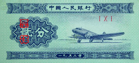 Front of second series 2 fen renminbi